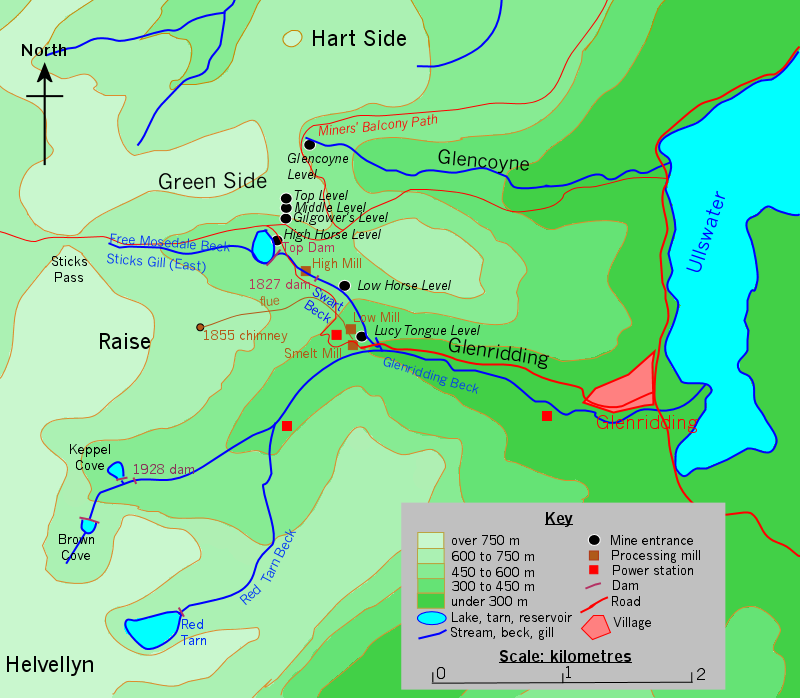 Map showing locations and topography around Greenside Mine in Cumbria, England